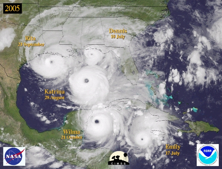 Montage of the most destructive hurricanes of the 2005 Atlantic hurricanes, excluding Hurricane Stan